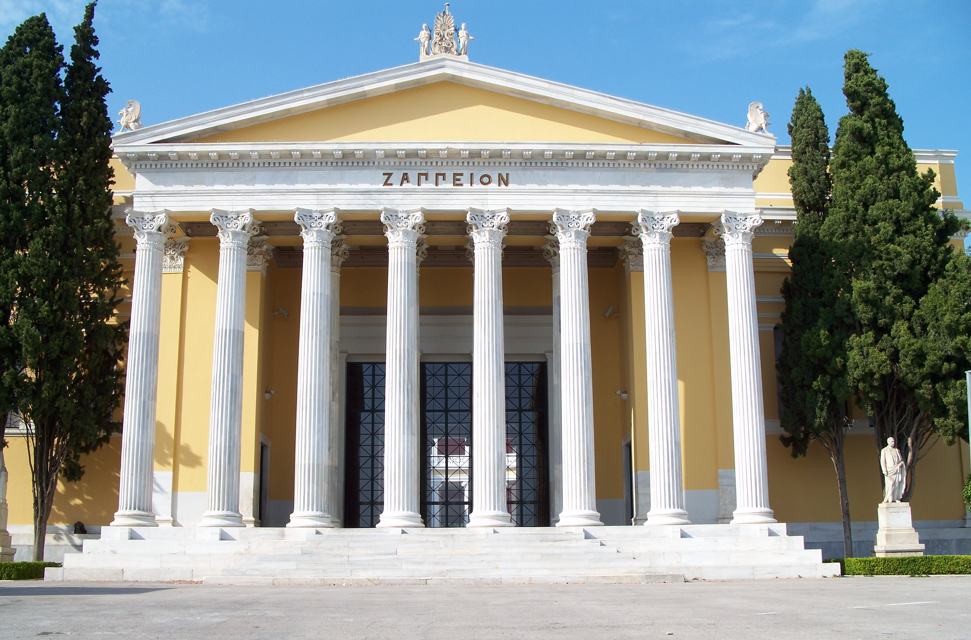 Zappeion Megaron (Ζάππειο Μέγαρο) in Athens.